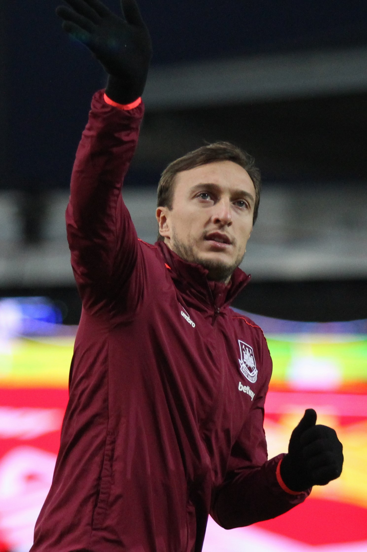 Mark Noble of West Ham during the warm up before the game against Manchester City.